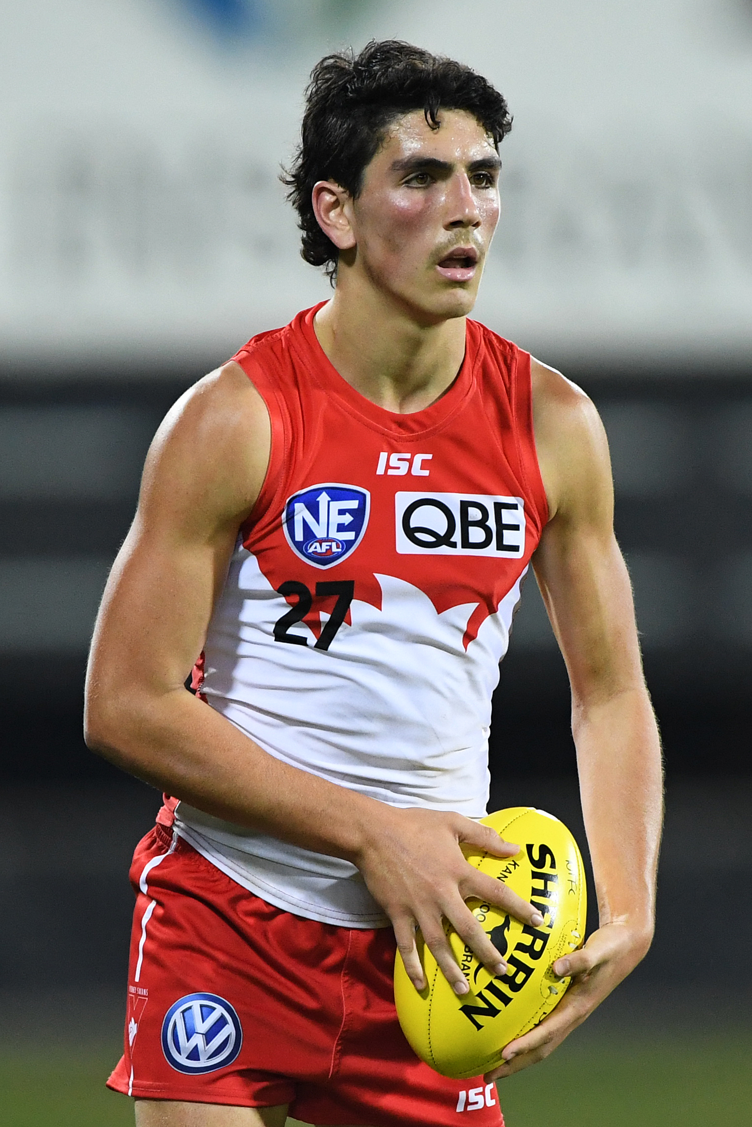 Justin McInerney of Sydney during the 2019 NEAFL round 14 match between NT Thunder and Sydney at TIO Stadium on Saturday, 6 July 2019 in Darwin, Northern Territory.